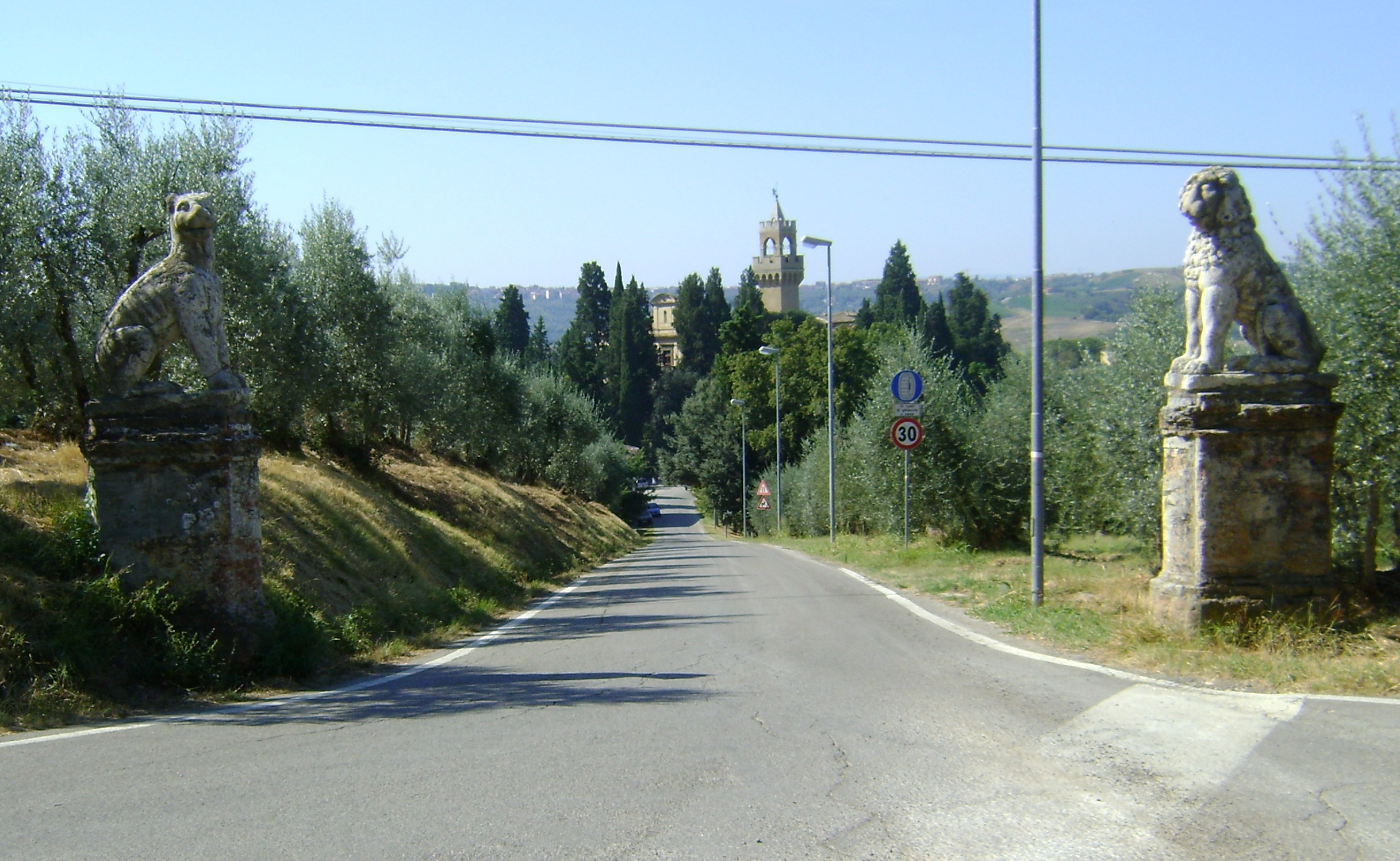 The Castello di Montegufoni (Tuscany, Italy). View from the entrance.